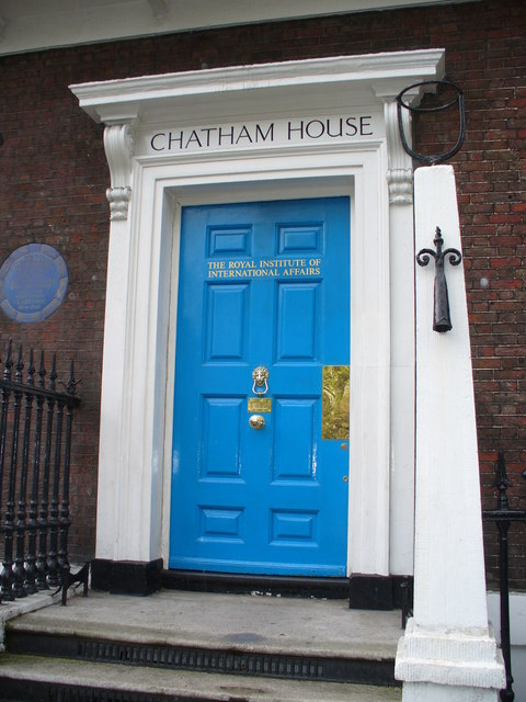 Chatham House At the north-west corner of St James's Square is the home of the Royal Institute of International Affairs. Three former Prime Ministers have lived here - Pitt the Elder, Lord Derby and William Gladstone.